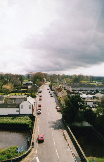 Dervock main Street as seen from a clock tower of the co-op community building. The old co-op building was almost derelict and it was decide with the help of public funding the knock down and completely restore the building to village ownership.the building now contains on the upper floor two three bedroom fully furnished flats with two shop units and a community office on the ground floor